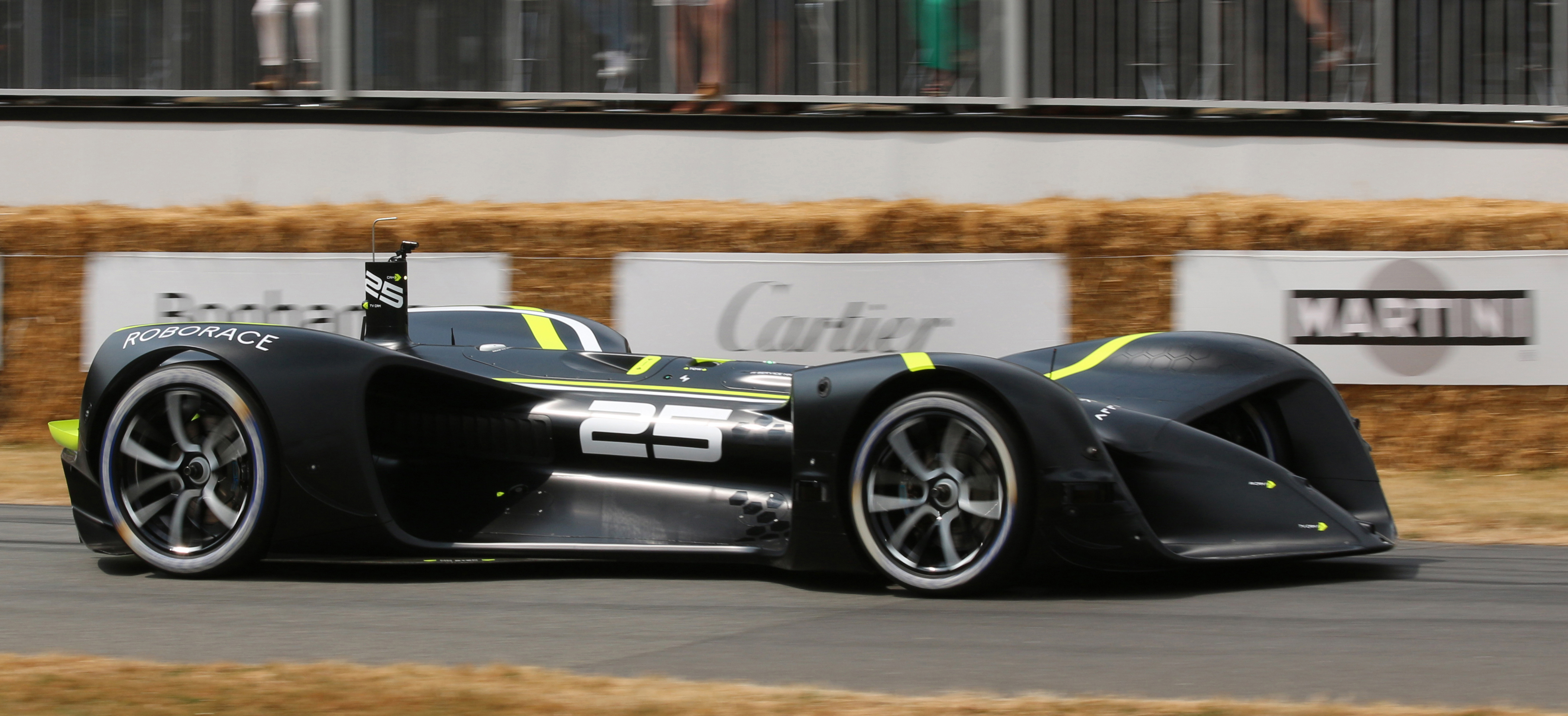 Robocar in Goodwood Festival of Speed 2018.